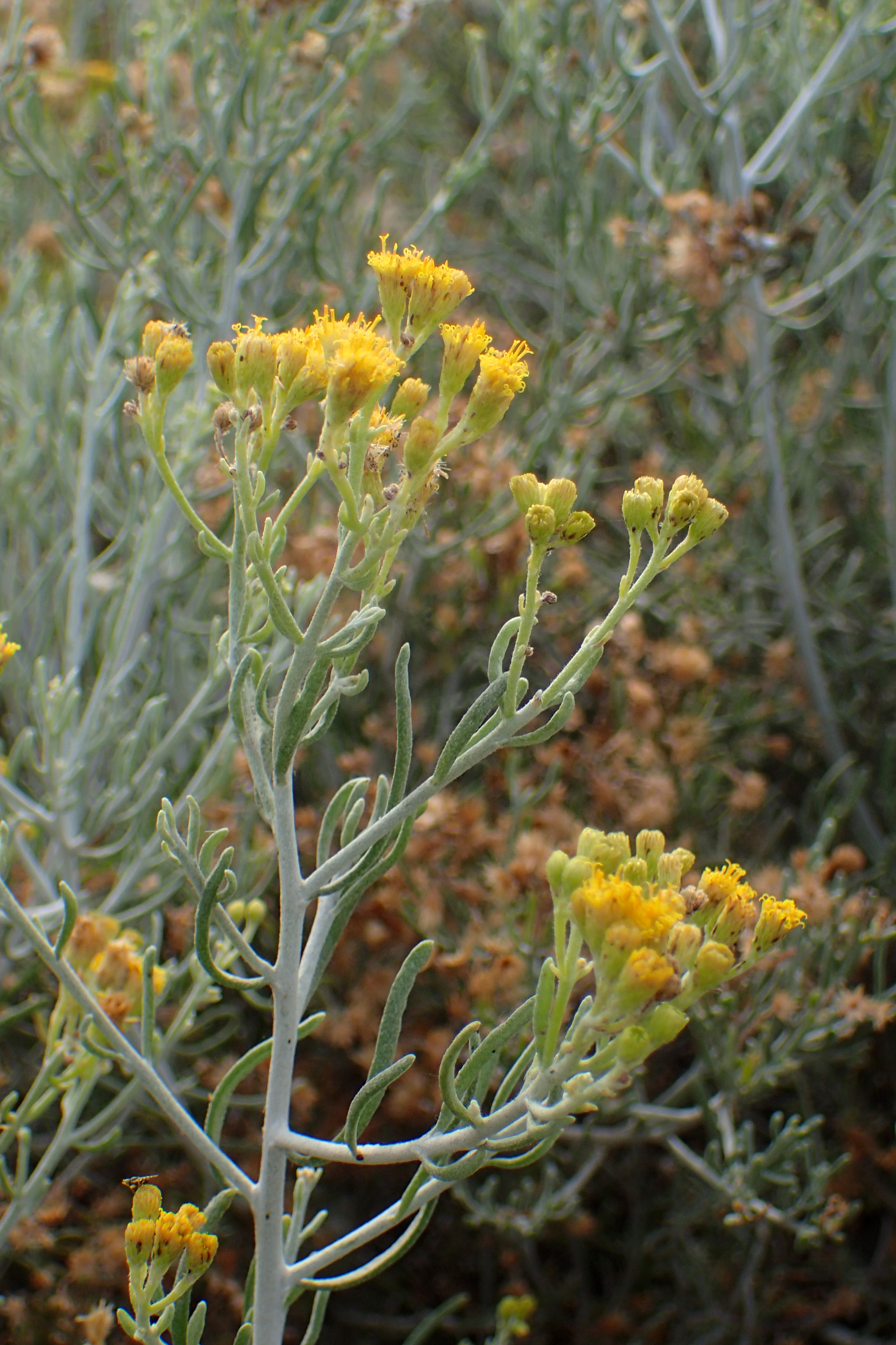 Schizogyne sericea in Armenime, Tenerife